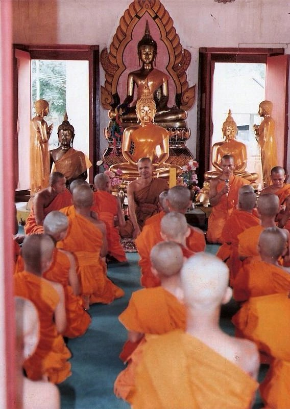 candidate for the Buddhist priesthood is ordaining as a monk in a temple. Thailand, Uttaradit, 1998. Own work